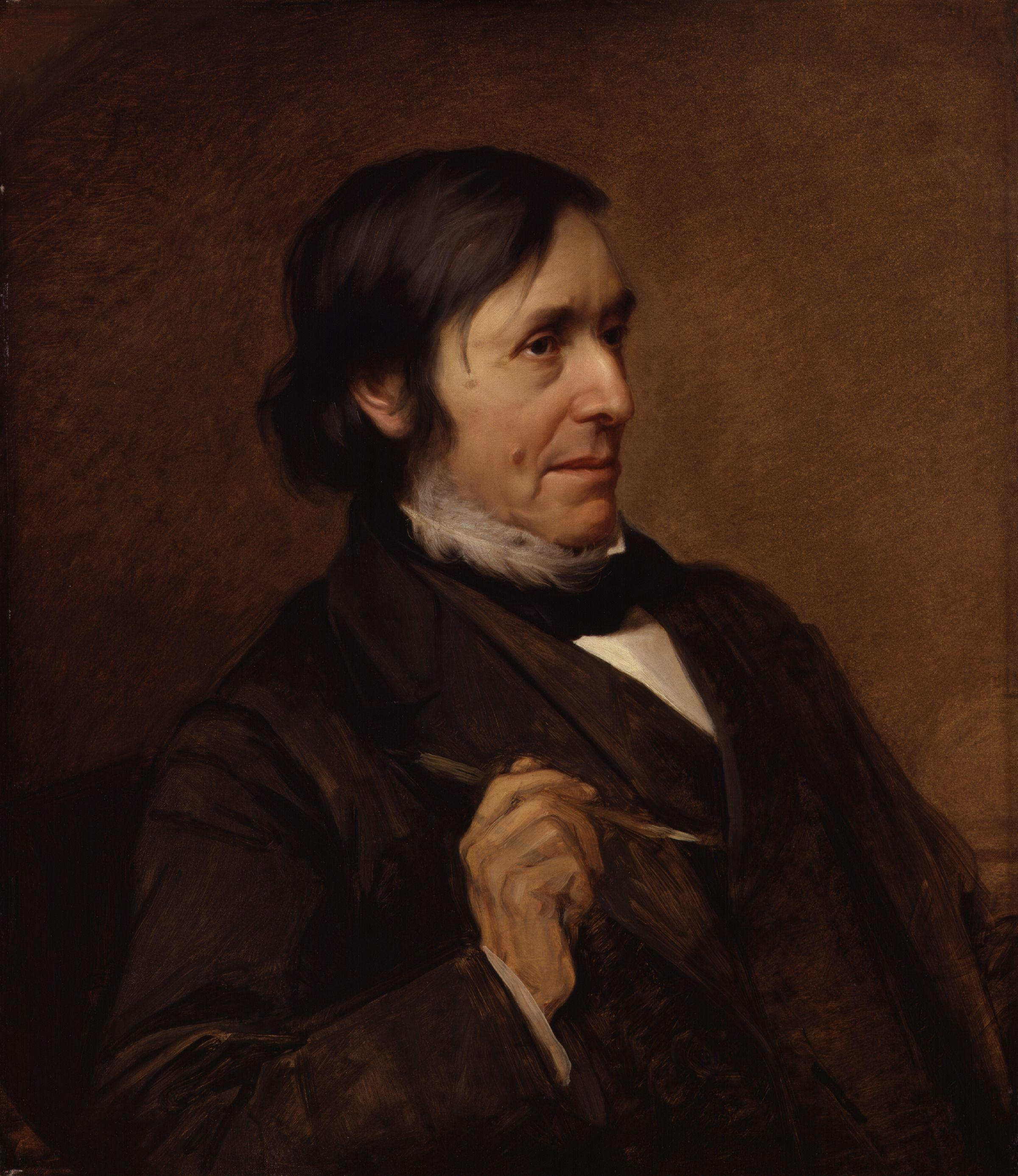 All images in this batch have been confirmed as author died before 1939 according to the official death date listed by the NPG.